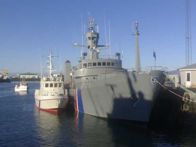 Icelandic patrol vessels - Taken at 3:35 PM on October 22, 2006 - cameraphone upload by ShoZu